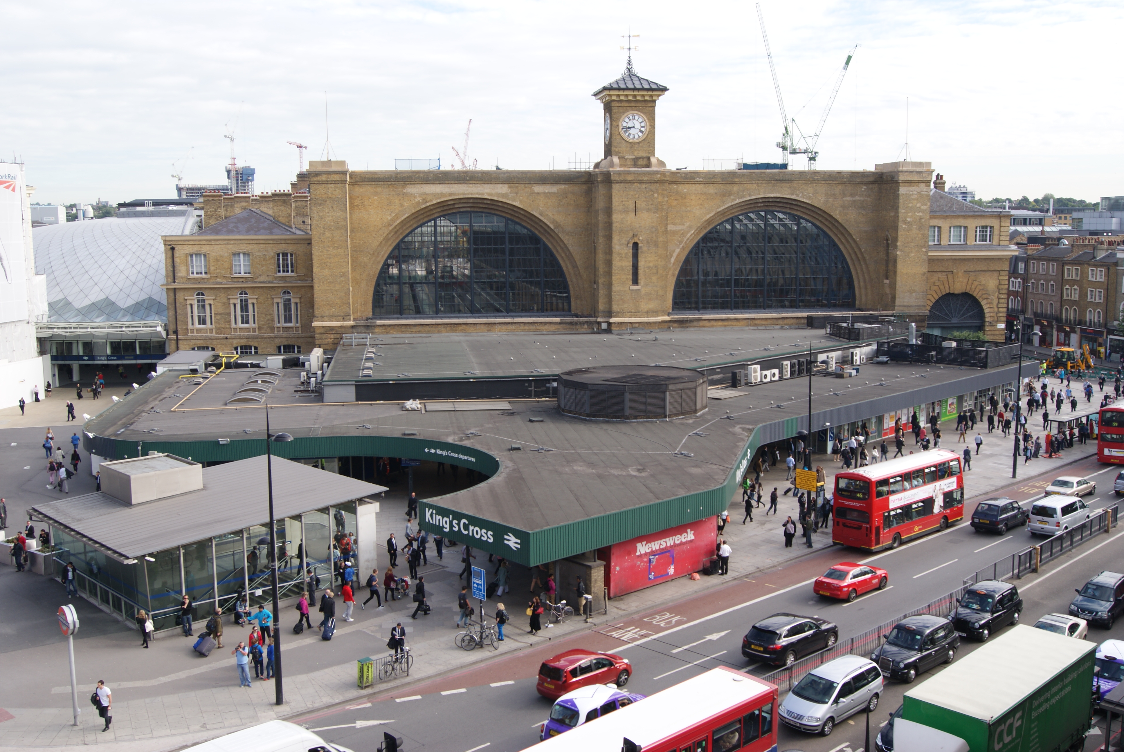 A view of King's Cross railway station from the fifth floor of the Megaro Hotel at the junction of Euston Road and Belgrove Street.